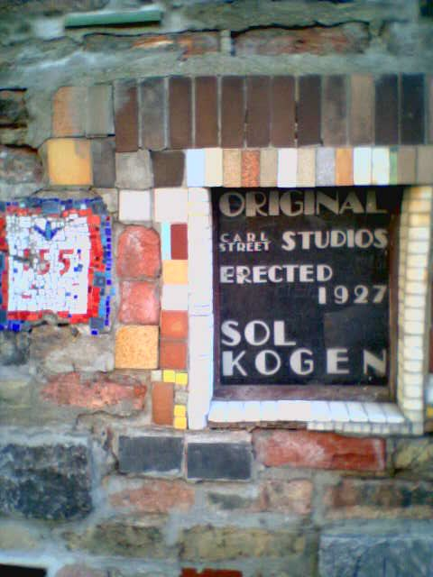 Self Shot